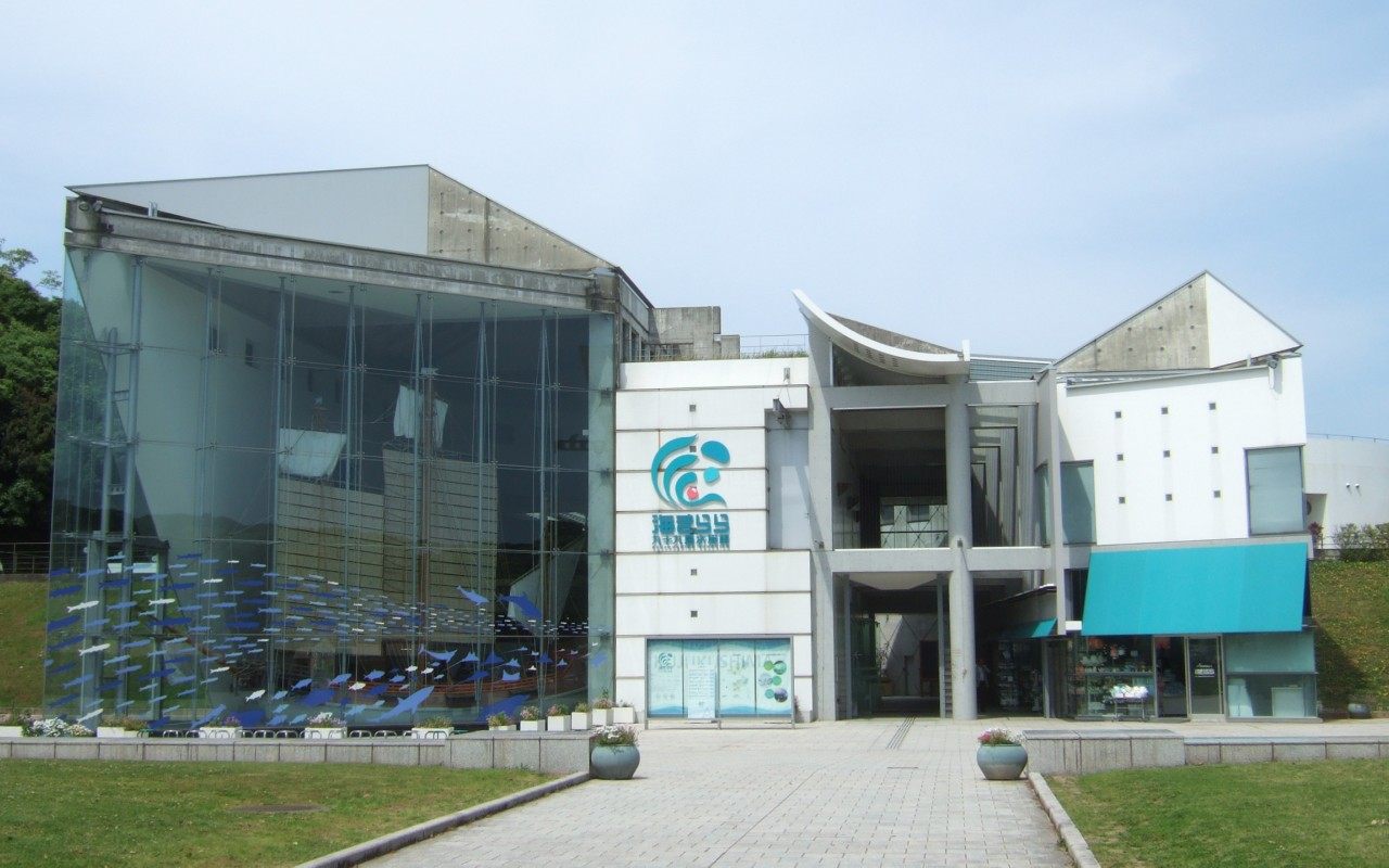 Saikai Pearl Sea Resort and "Umi Kirara" Kujūkushima Aquarium, Sasebo City, Nagasaki, Japan